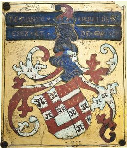 Garter stall-plate of Henry Bourchier, 2nd Earl of Essex, 3rd Count of Eu (1468-1540), nominated as a Knight of the Garter in 1499. St George's Chapel, Windsor Castle. Inscribed above: "Le Conte Henri de Esex et de Ew". Arms: 1st & 4th: Bourchier; 2nd: Louvain, feudal barons of Little Easton, Essex (for the mother of the 1st Count of Eu, Eleanor de Louvain (d.1397)): Gules billety or a fess argent; 3rd: Argent, a fesse and a canton conjoined gules' (Woodville). Crest: A man's (moor's) head in profile proper ducally crowned or with a pointed cap gules;[1]